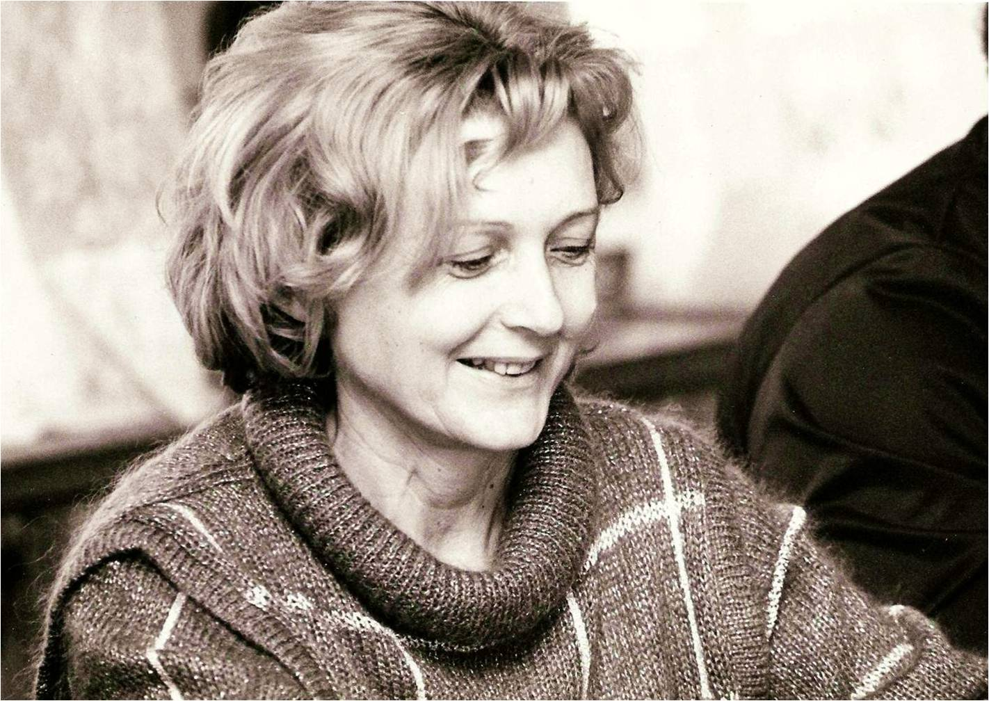 Anna Ondrejičková, slovak micropaleontologist specializing on radiolaria.